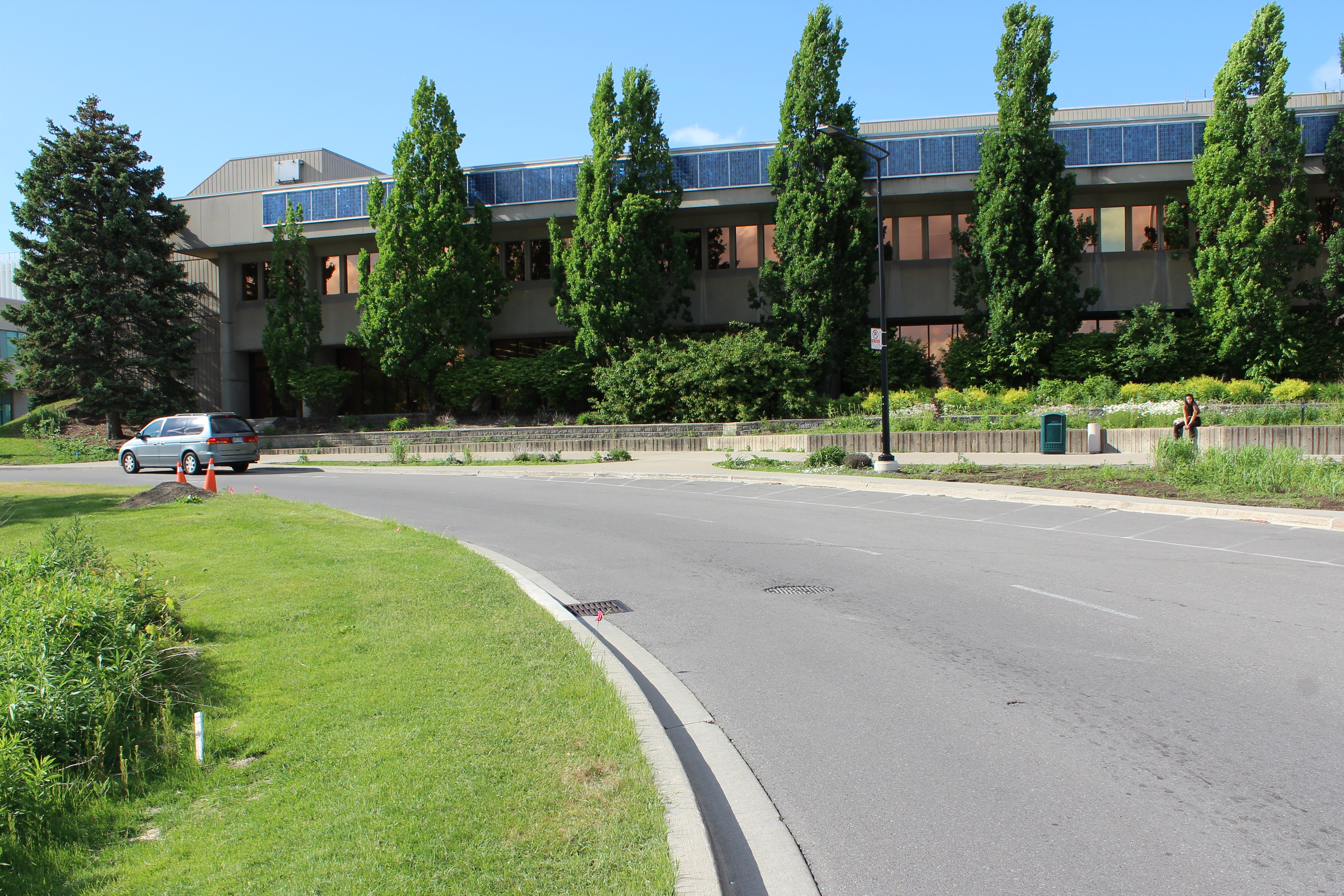 William G. Davis Building.